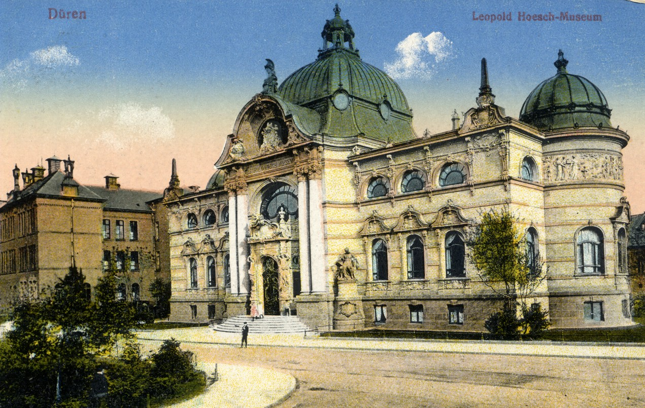 Leopold-Hoesch-Museum at Düren, Rhineland (Germany); original view.